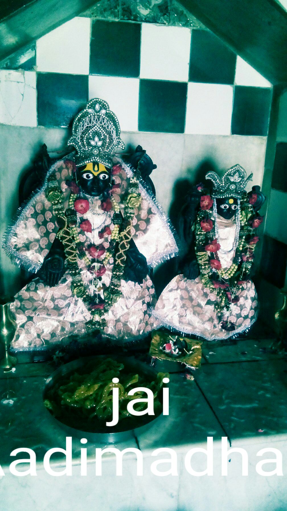 Bhagwan Shri Aadi Madhav: One of the Dwadash Madhav situated at tirthraj prayag.